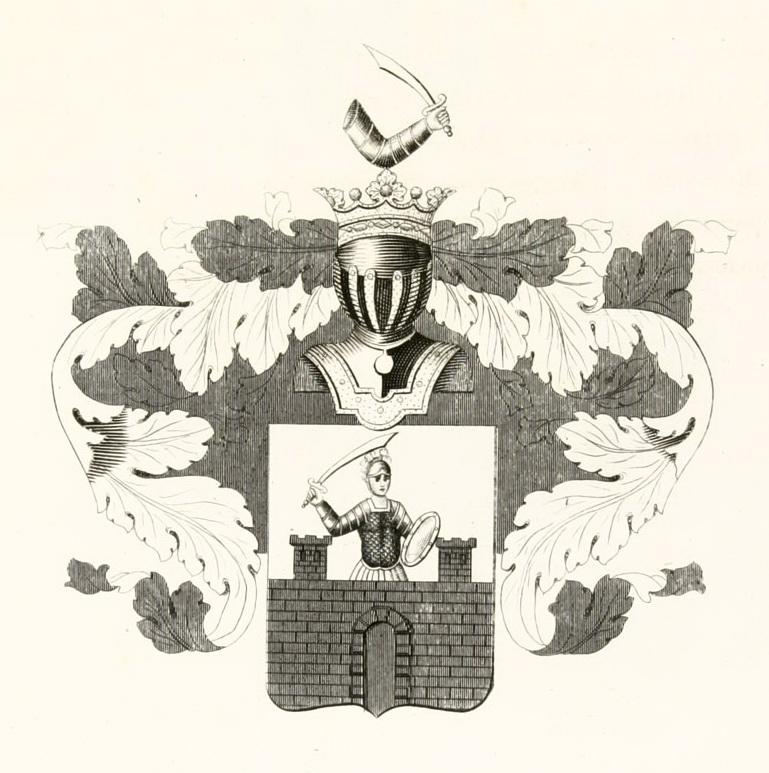 Coat of Arms of Povalishin family